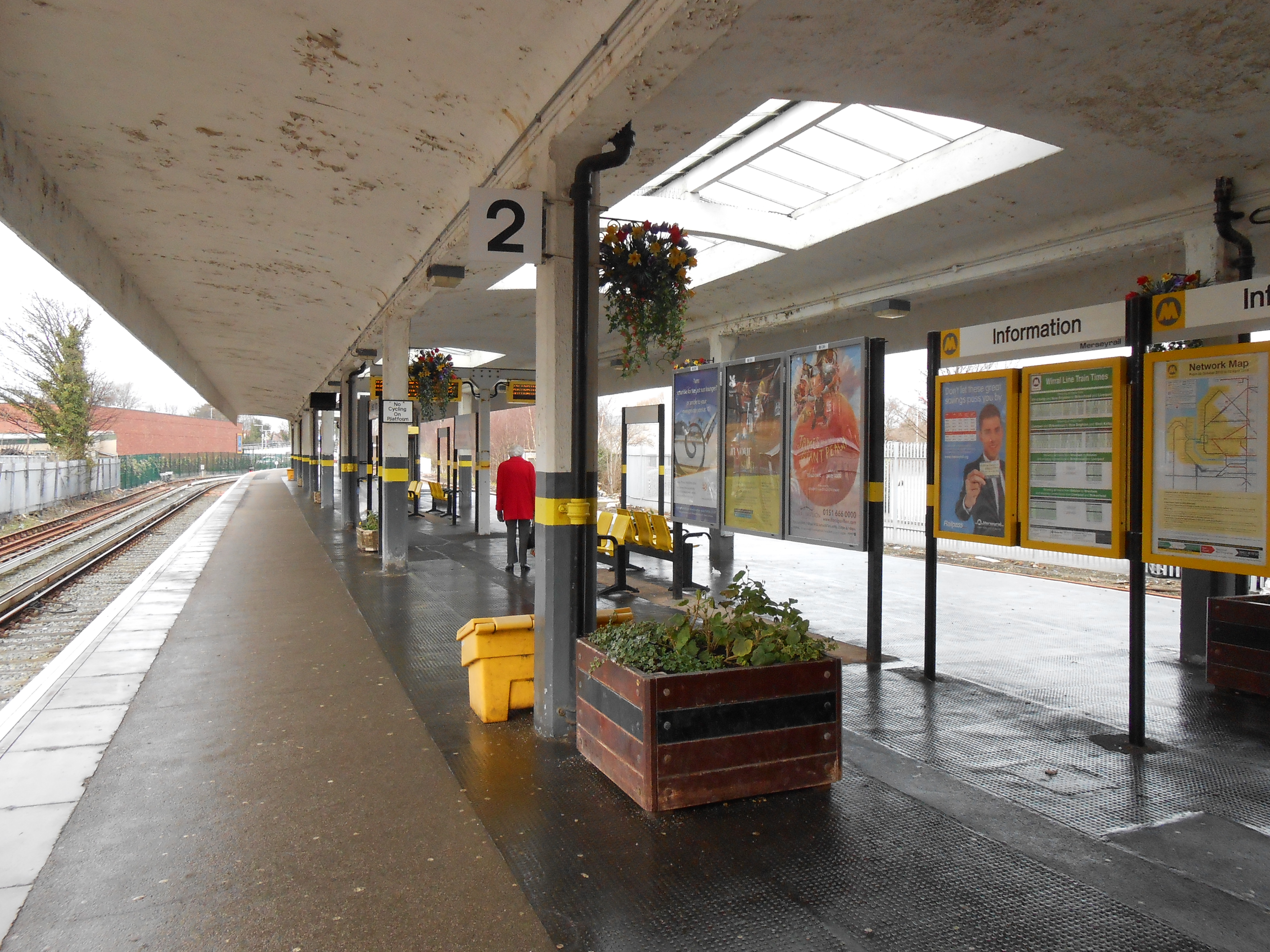 Photo taken at West Kirby railway station, Wirral, Merseyside, England.